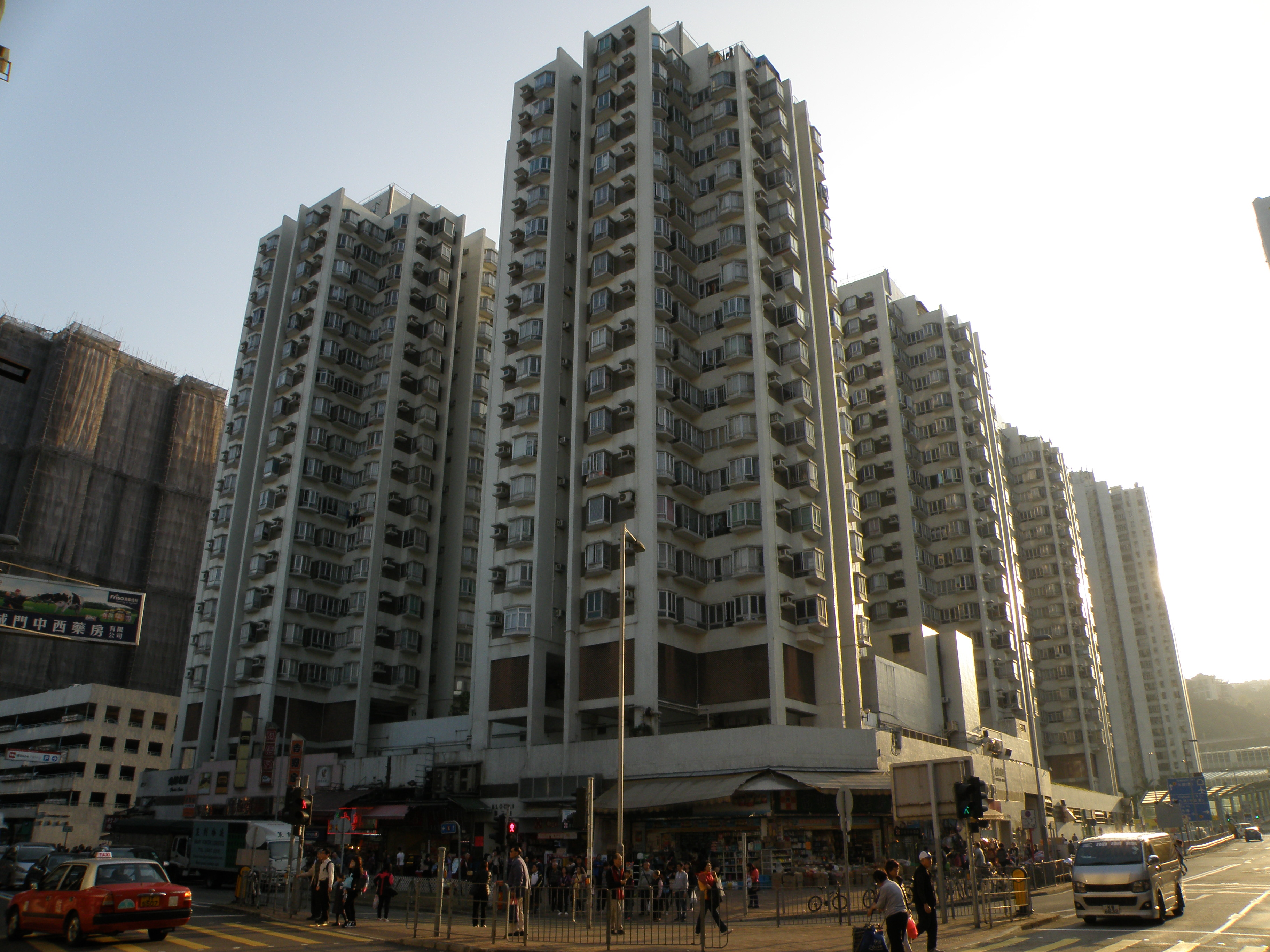 Grandeur Garden in Tai Wai, Hong Kong.